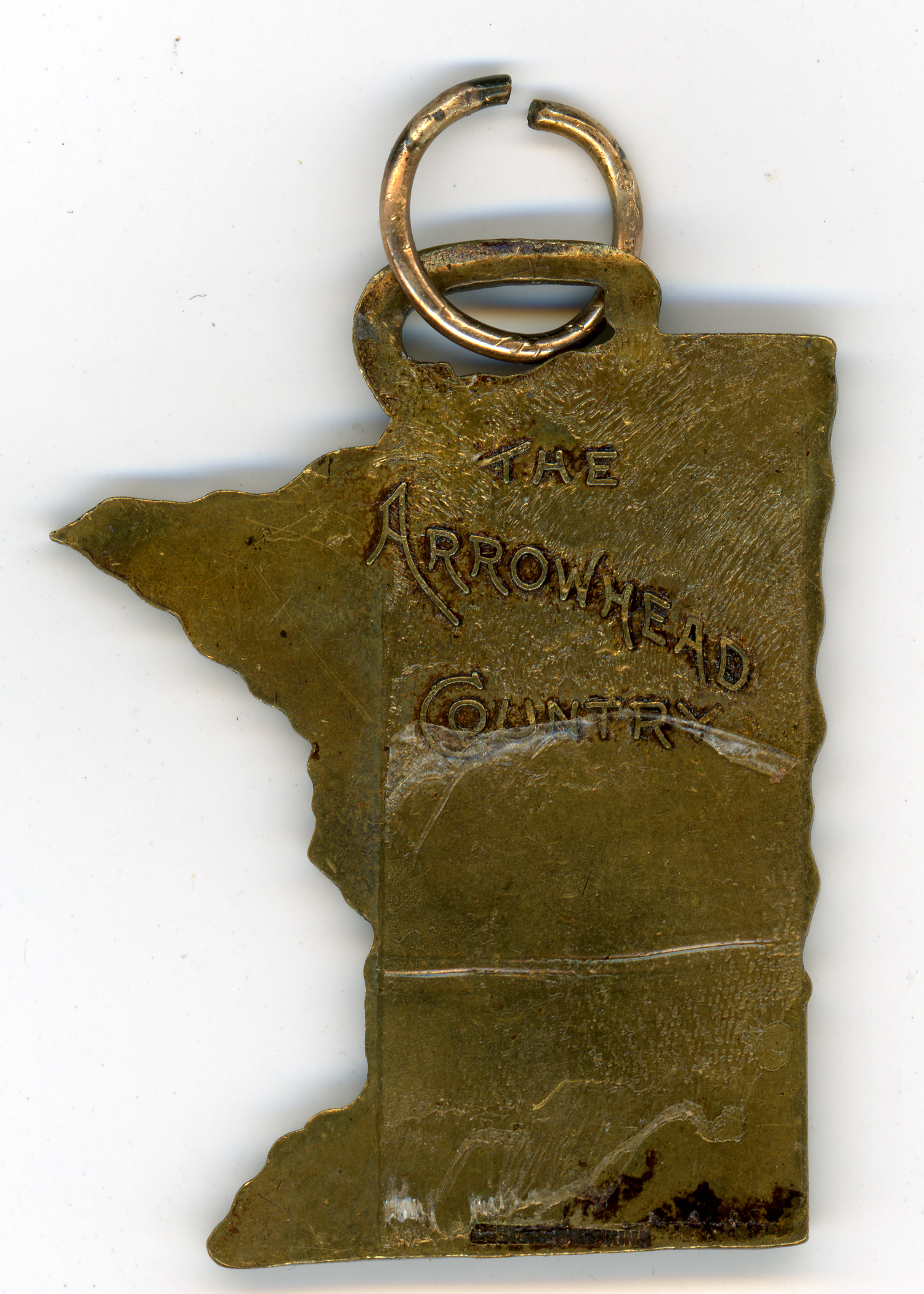 Brass medal reverse.